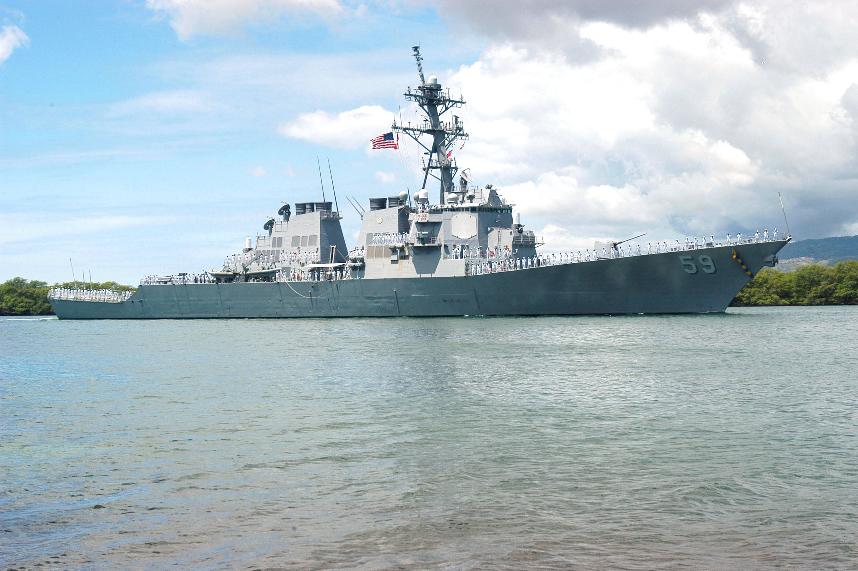 Pearl Harbor, Hawaii (Sep. 2, 2004) – Guided missile destroyer USS Russell (DDG 59) passes Hospital Point, Hawaii, after returning from a routine four-month deployment to the Western Pacific Ocean. Russell and her crew of more than 330 Sailors participated in the Cooperation Afloat Readiness and Training (CARAT), a series of exercises in Singapore, Thailand, Malaysia, Brunei and the Philippines. U.S. Navy photo by Photographer’s Mate 3rd Class Jimmie J. Crockett (RELEASED)